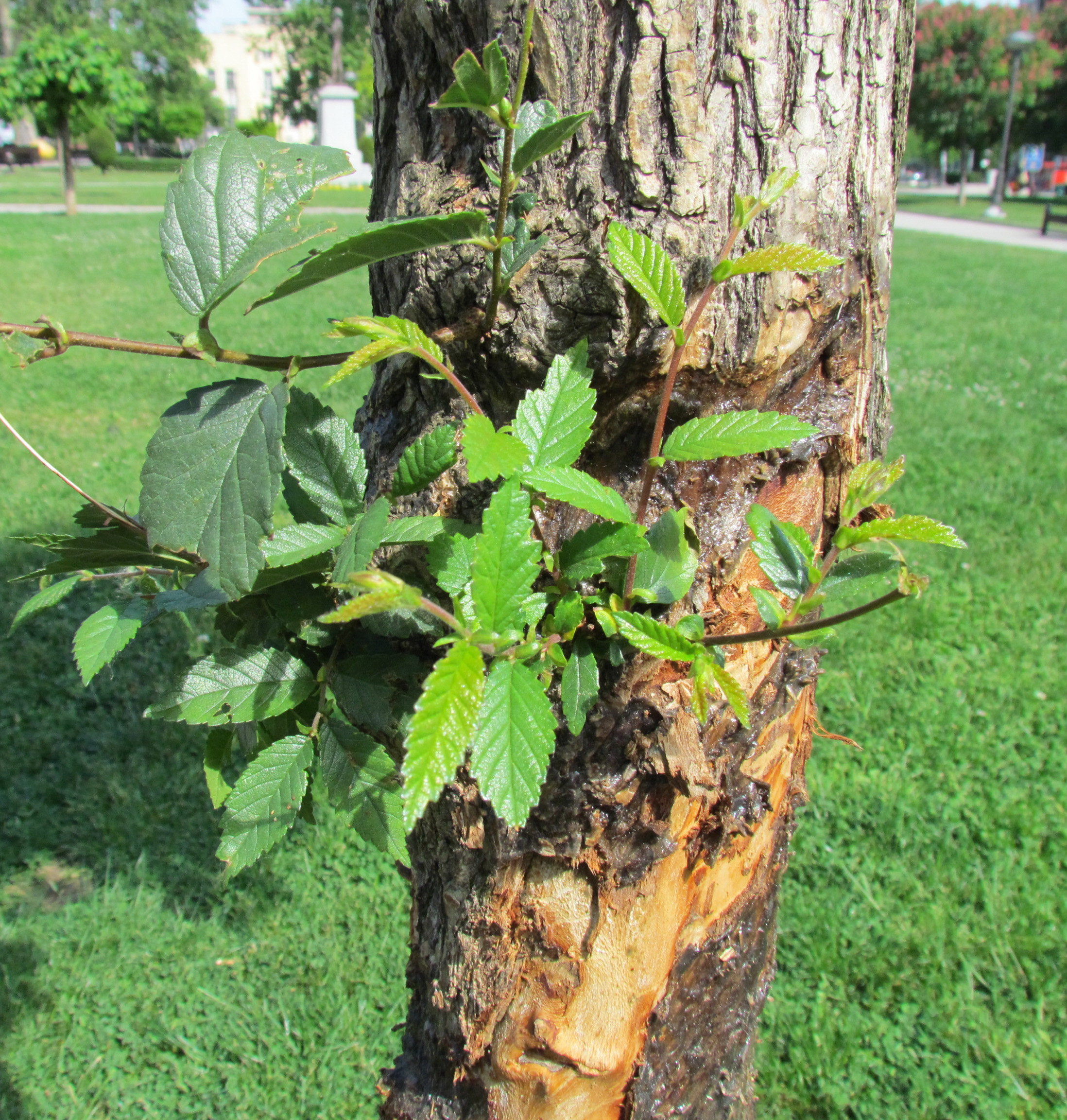 Wound as trigger for adventitious shoots of Ulmus pumila (Cirilo i Metodije park, Belgrade) photo: Mihailo Grbić